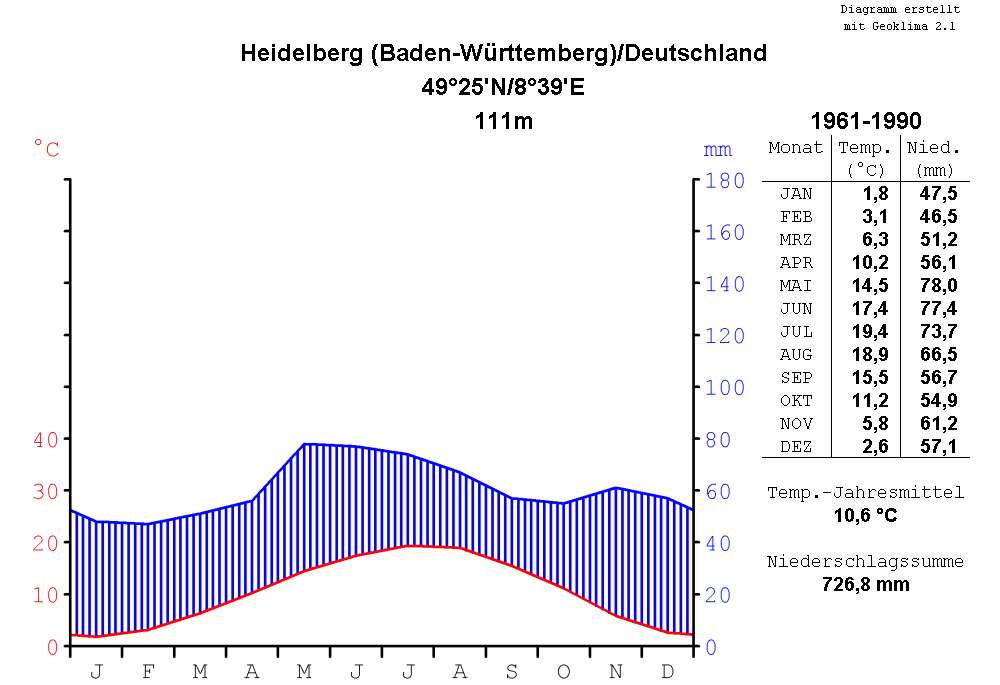 climate chart of Heidelberg, Baden-Württemberg, Germany, for the period of time from 1961 to 1990, in the format by Walter and Lieth, metric, °Celsius and millimeters, chart made with Geoklima 2.1, label in German